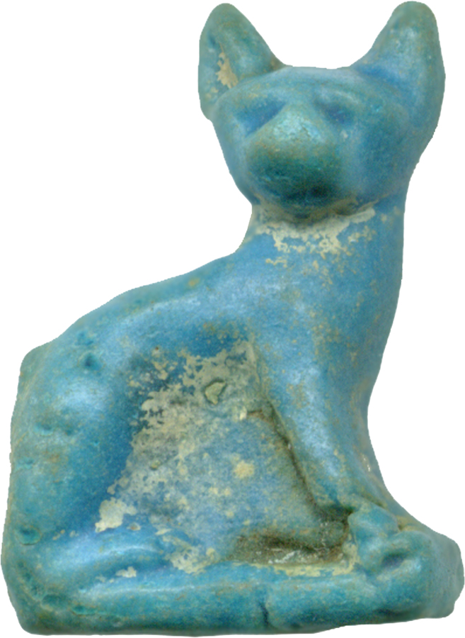 This small seated cat may have been used as an amulet; however the small hole on the bottom indicates that it was implemented into another base or on top of a staff.